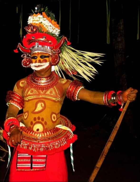 This is the Muthappan veLLaattam from Ancharakkandi, Kannur, Kerala, India - a ritual before the main theyyam.